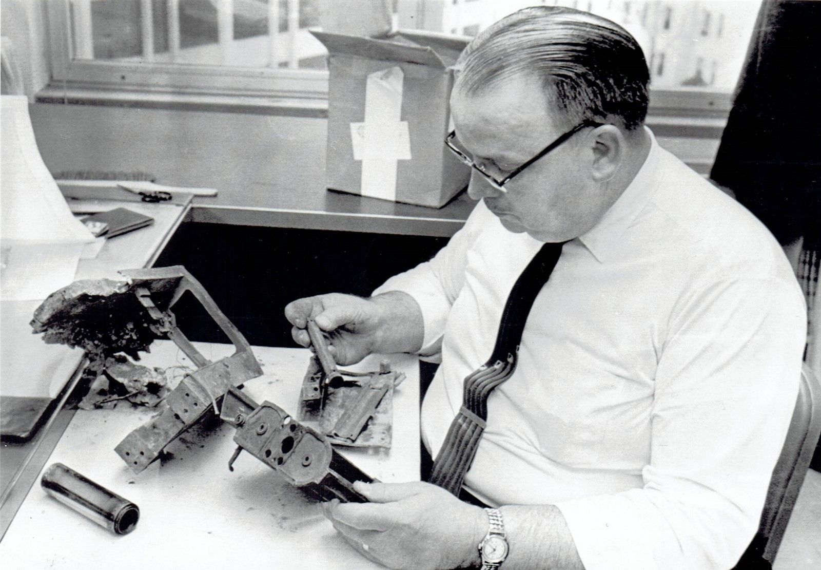 1965 Wire Photo worker inspect recorder from American Airlines Flight 383 Crash